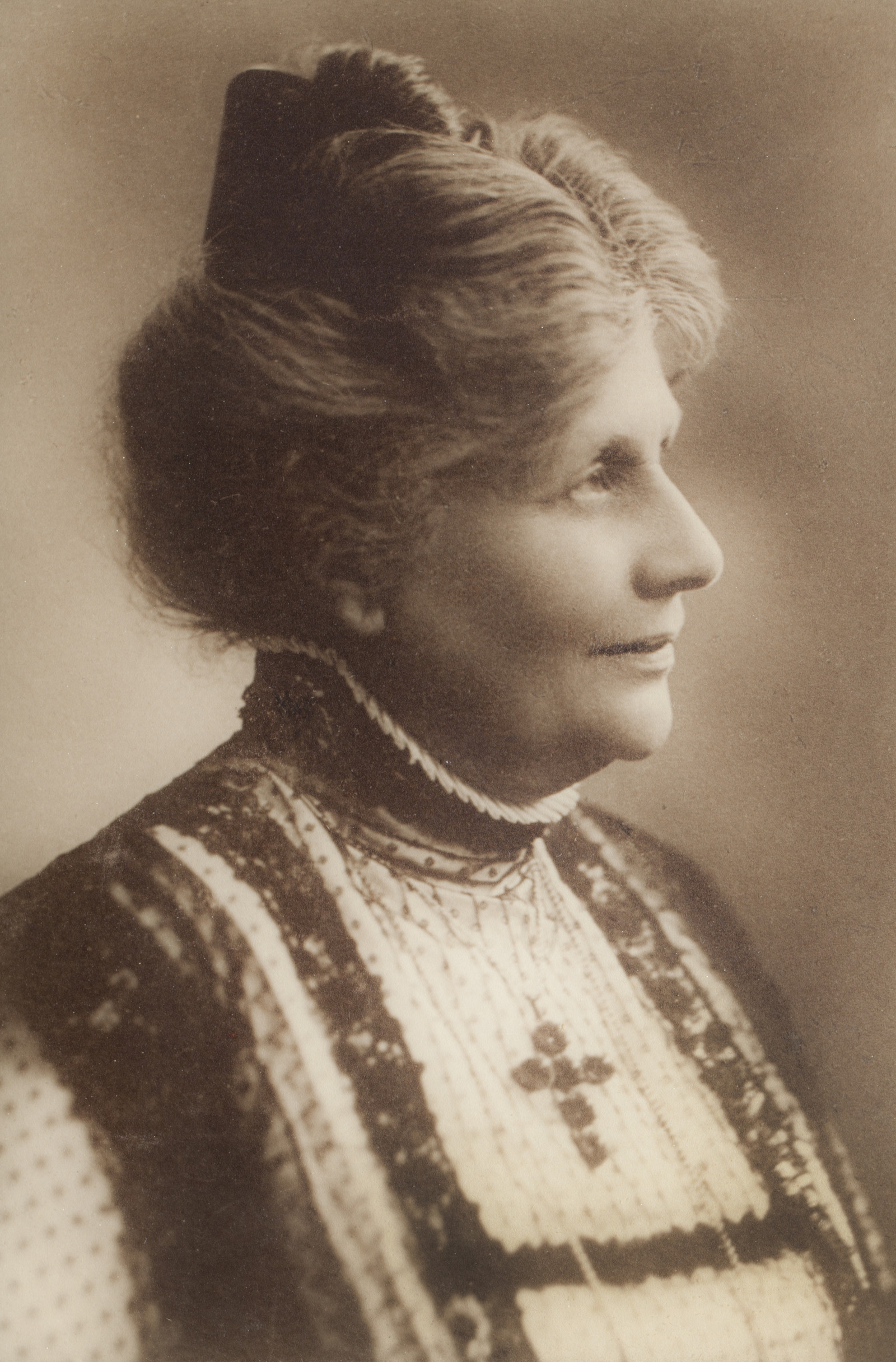 Karen Marie Ankersted Hansen (1859-1921), Danish politician and women's rights acivist, MP